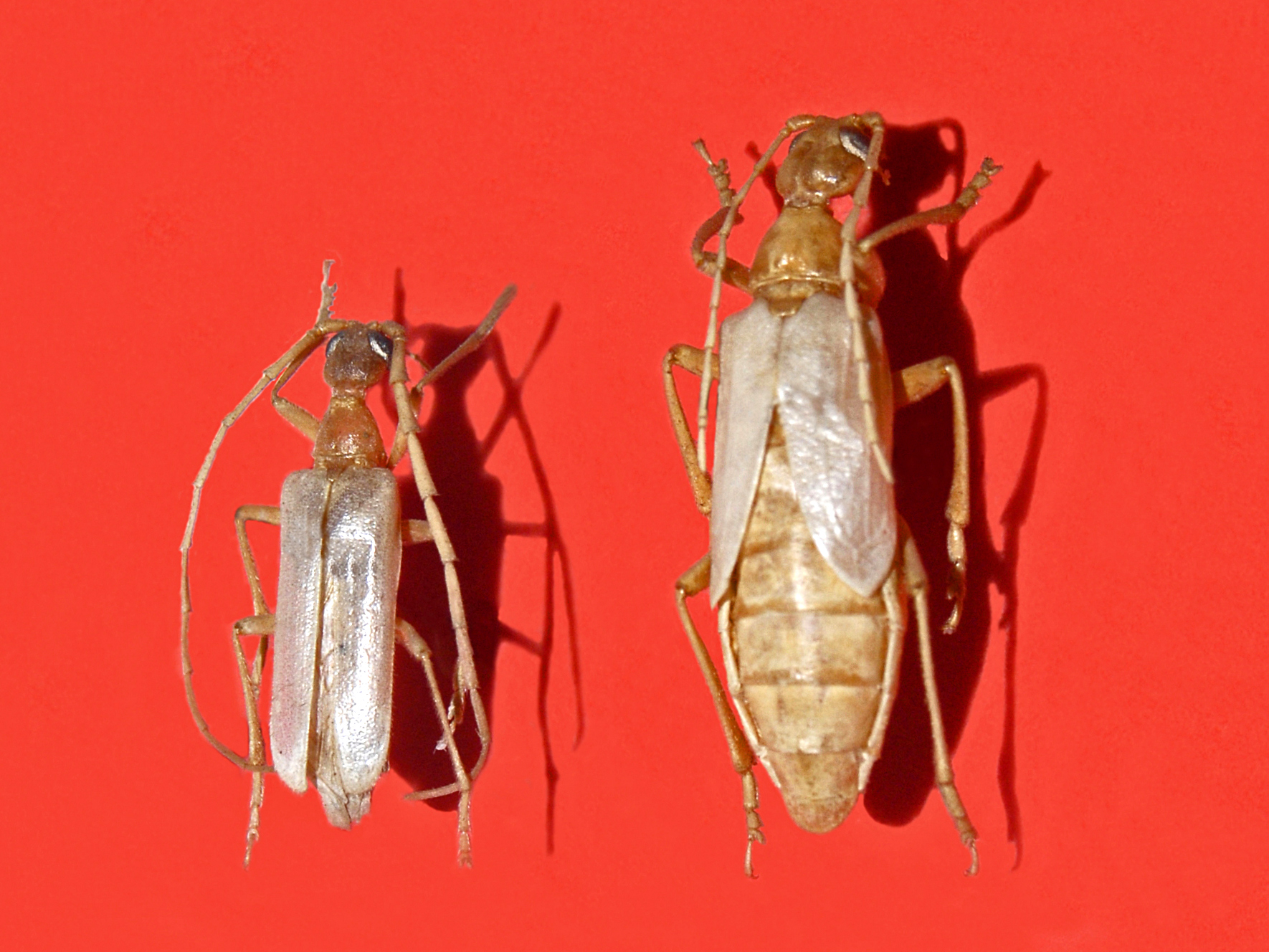 Museum specimen of Vesperus luridus, male and female. On display at the Museo Civico di Storia Naturale di Milano